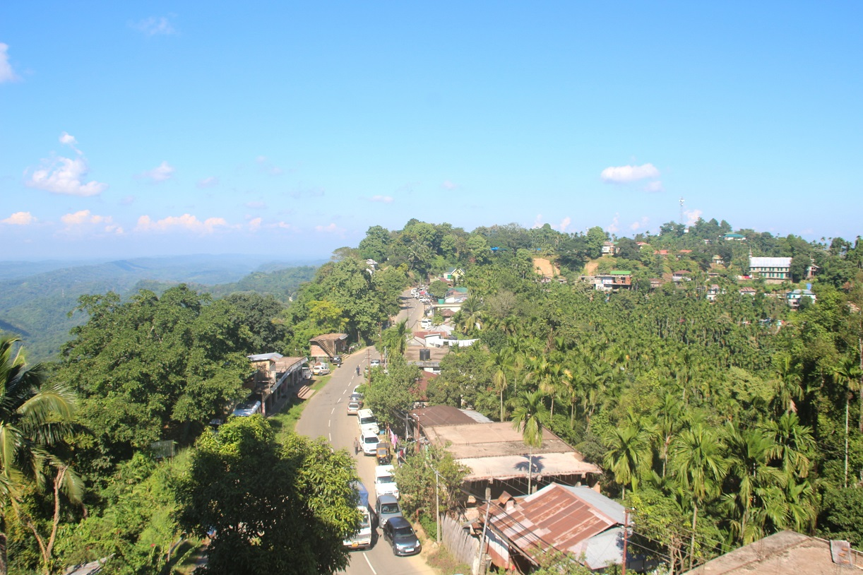 Kualmawi, Bilkhawthlir